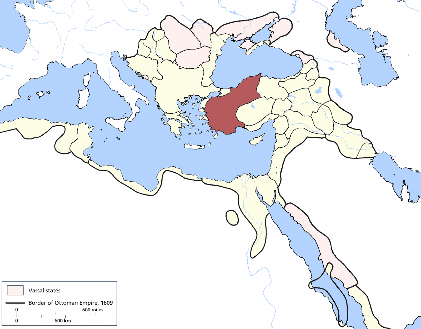 Anatolia Eyalet, Ottoman Empire (1609). Source: Encyclopedia of the Ottoman Empire at Google Books By Gábor Ágoston, Bruce Alan Masters